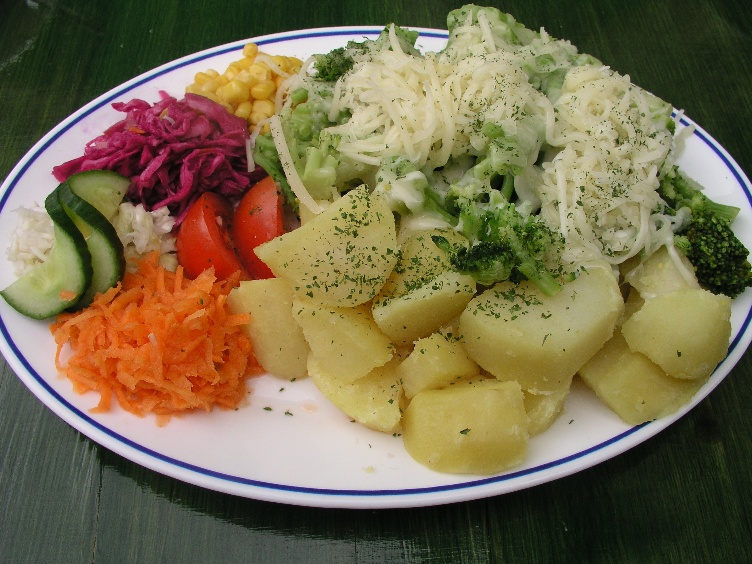 Broccoli with cheese, boiled potatoes and vegetables (corn, red cabbage, white cabbage, cucumber, tomato, carrot)